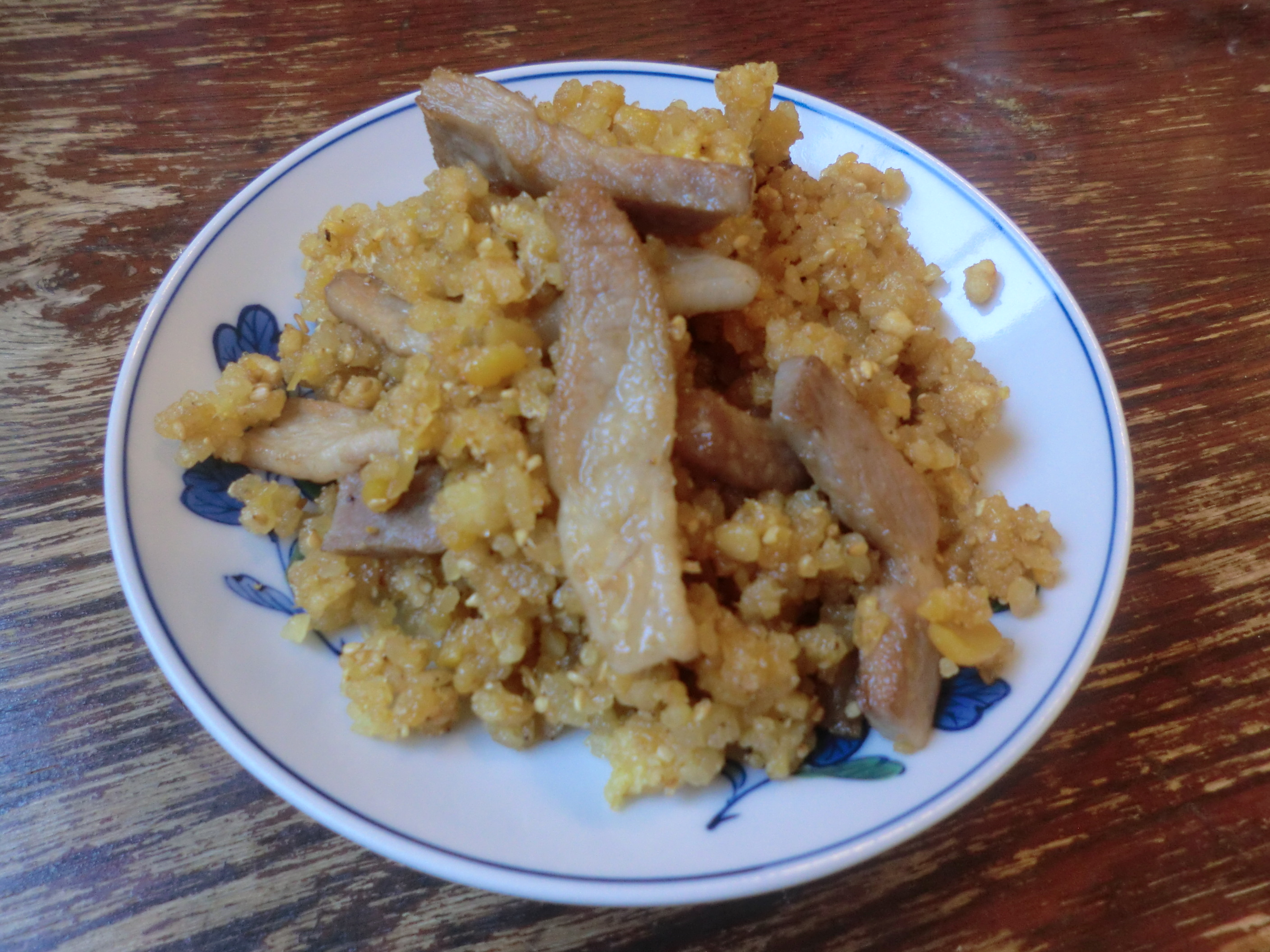 Buta miso(pork with miso), local cuisine of Amami islands, Kagoshima, Japan.